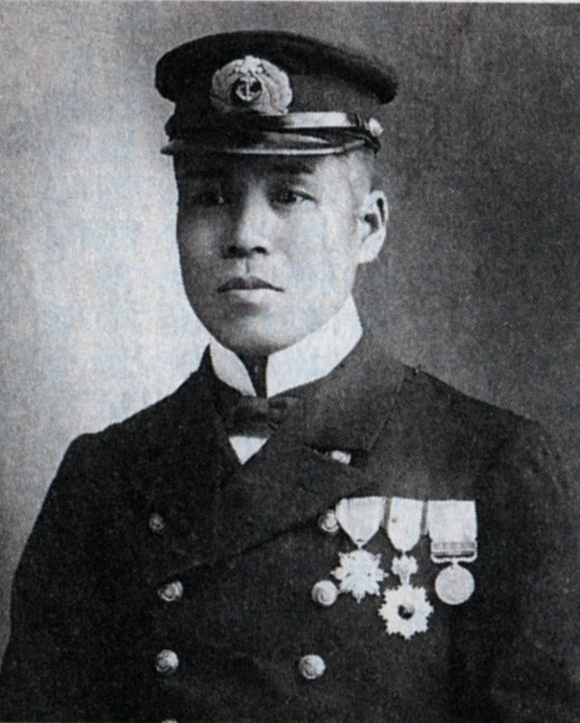 Aibara Shiro is an Imperial Japanese Navy Lieutenant